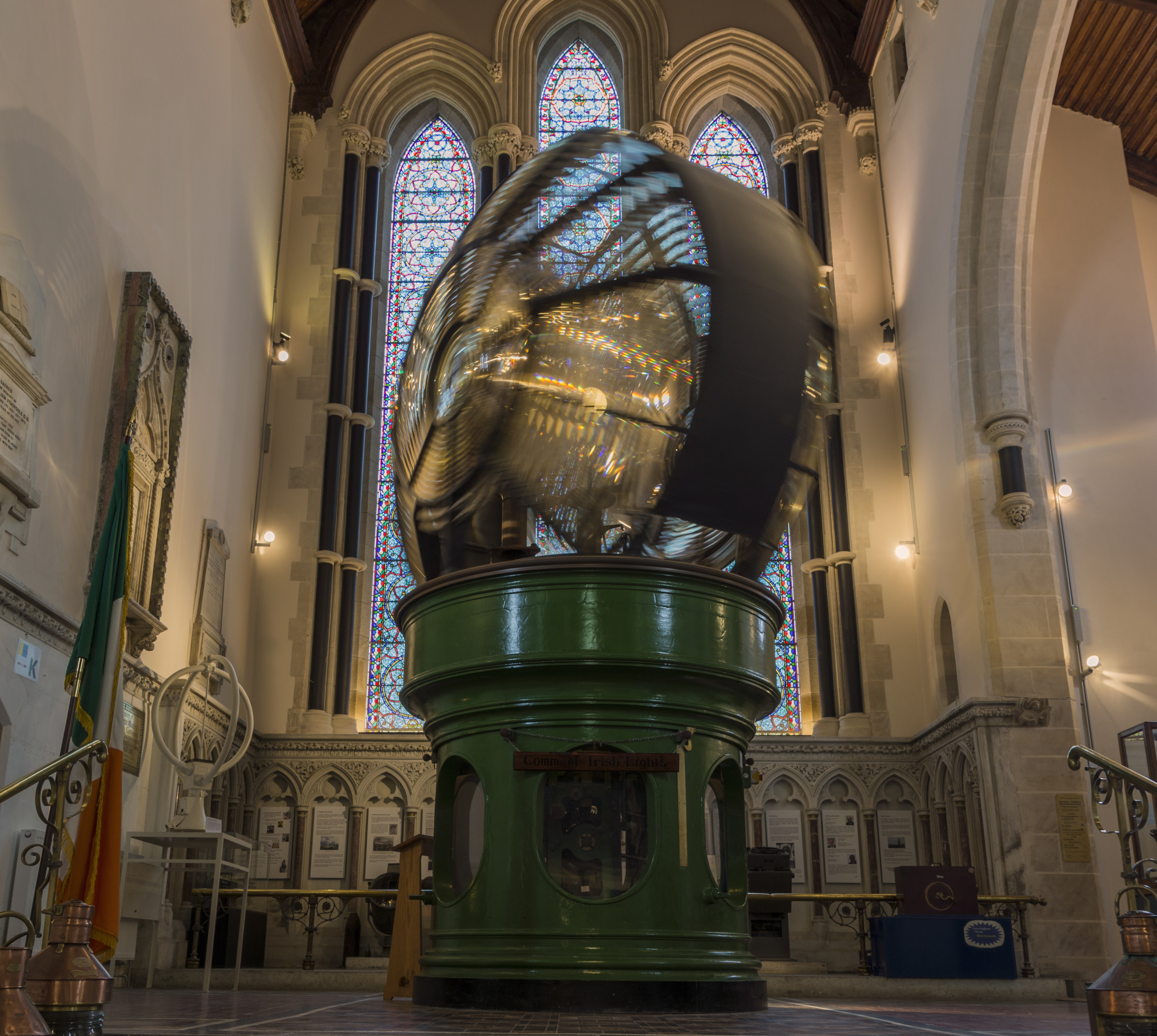 This working Optic is the light from Baily lighthouse in Howth, North Dublin. It was installed in 1902 and removed in 1972 when the lighthouse was modernised. Full description here: It was not possible to do an HDR as this is moving. However I was able to recover all the shadows and most of the detail in the stained glass. Very impressed with dynamic range of the NEX7 and ACR7's RAW processing engine.